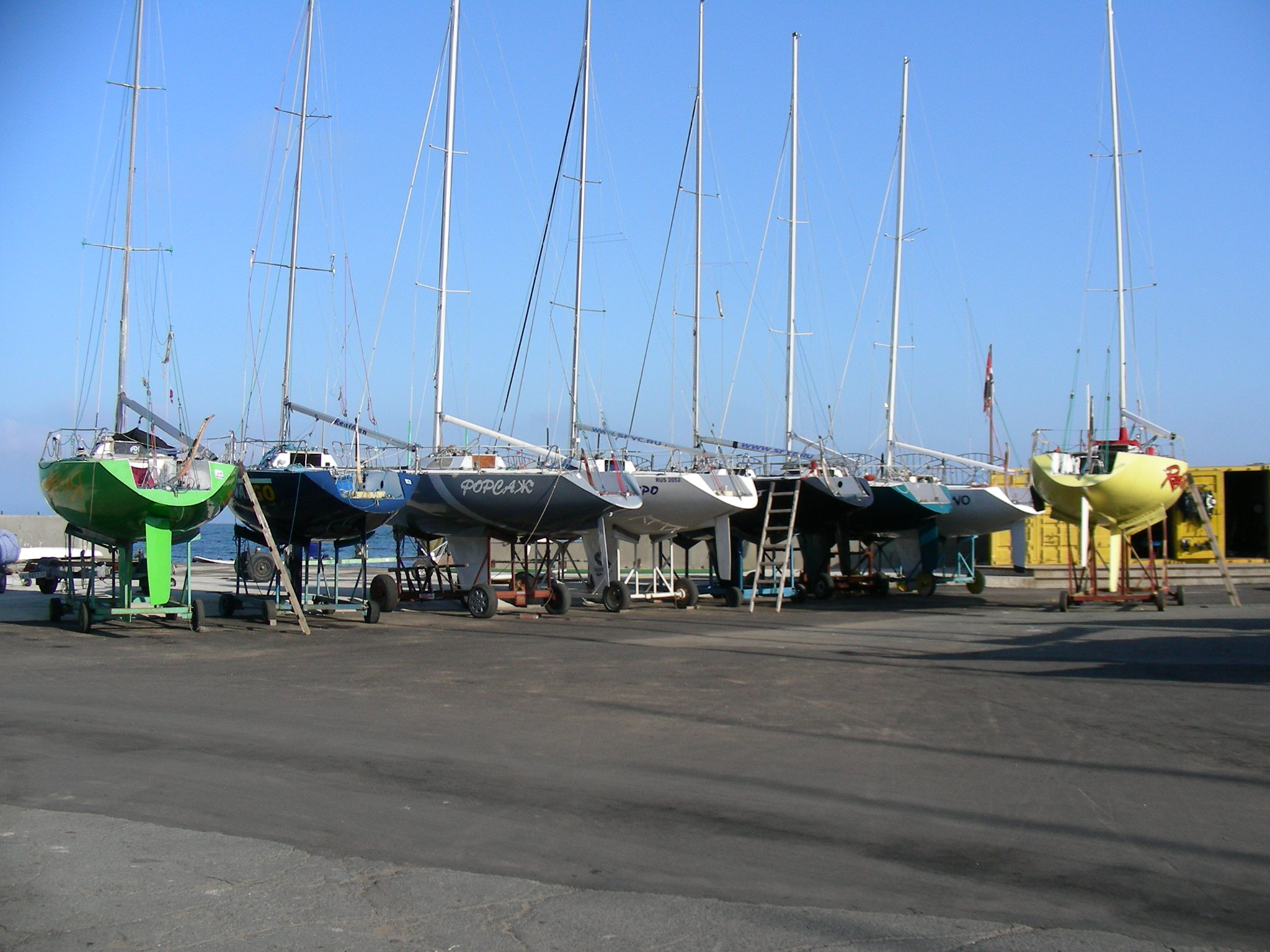 Peterson-25 class yachts in yacht-club of Vladivostok